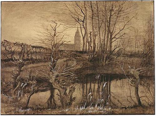 The Kingfisher is a painting by Vincent Van Gogh